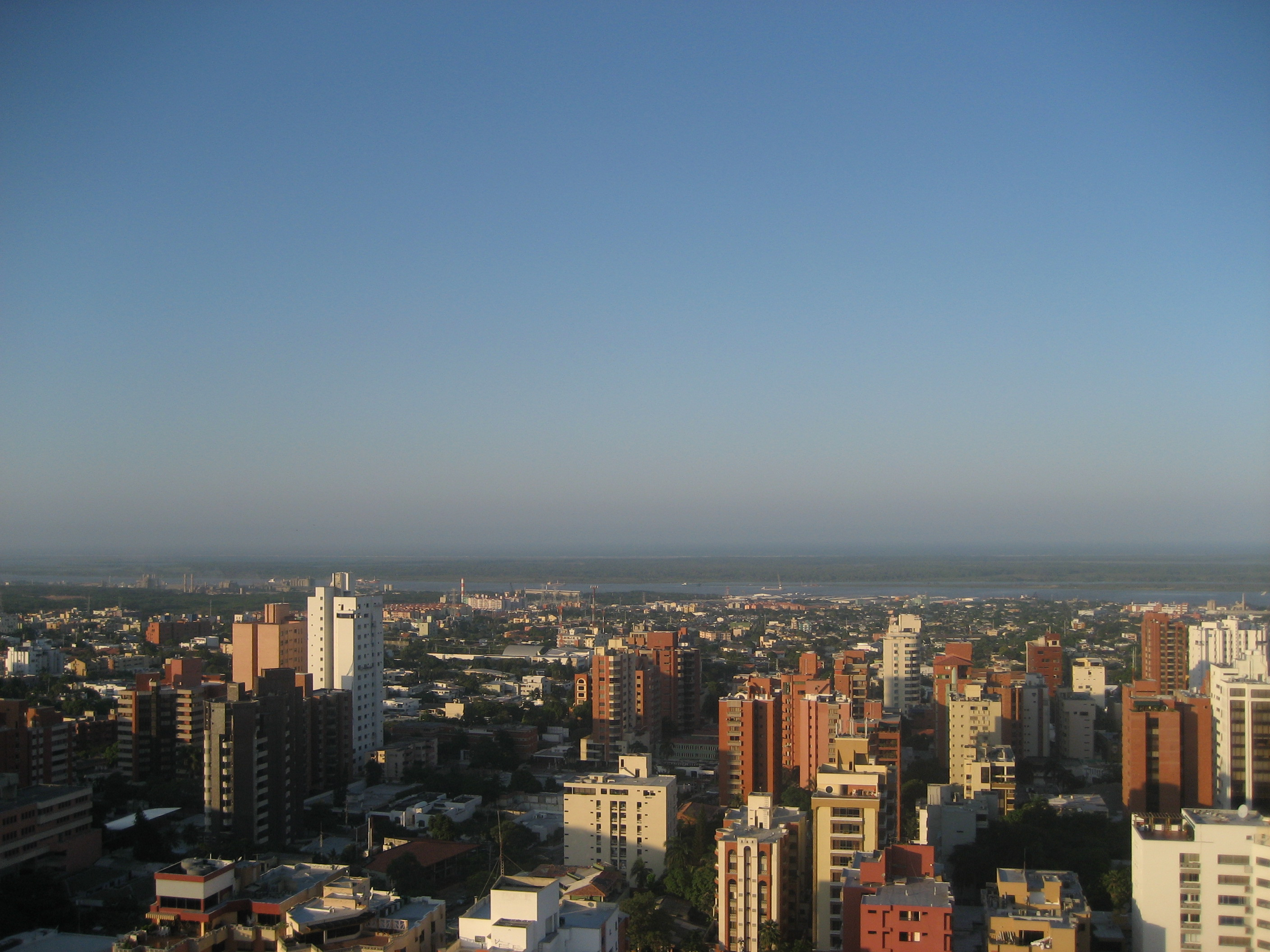 City of Barranquilla, Colombia.